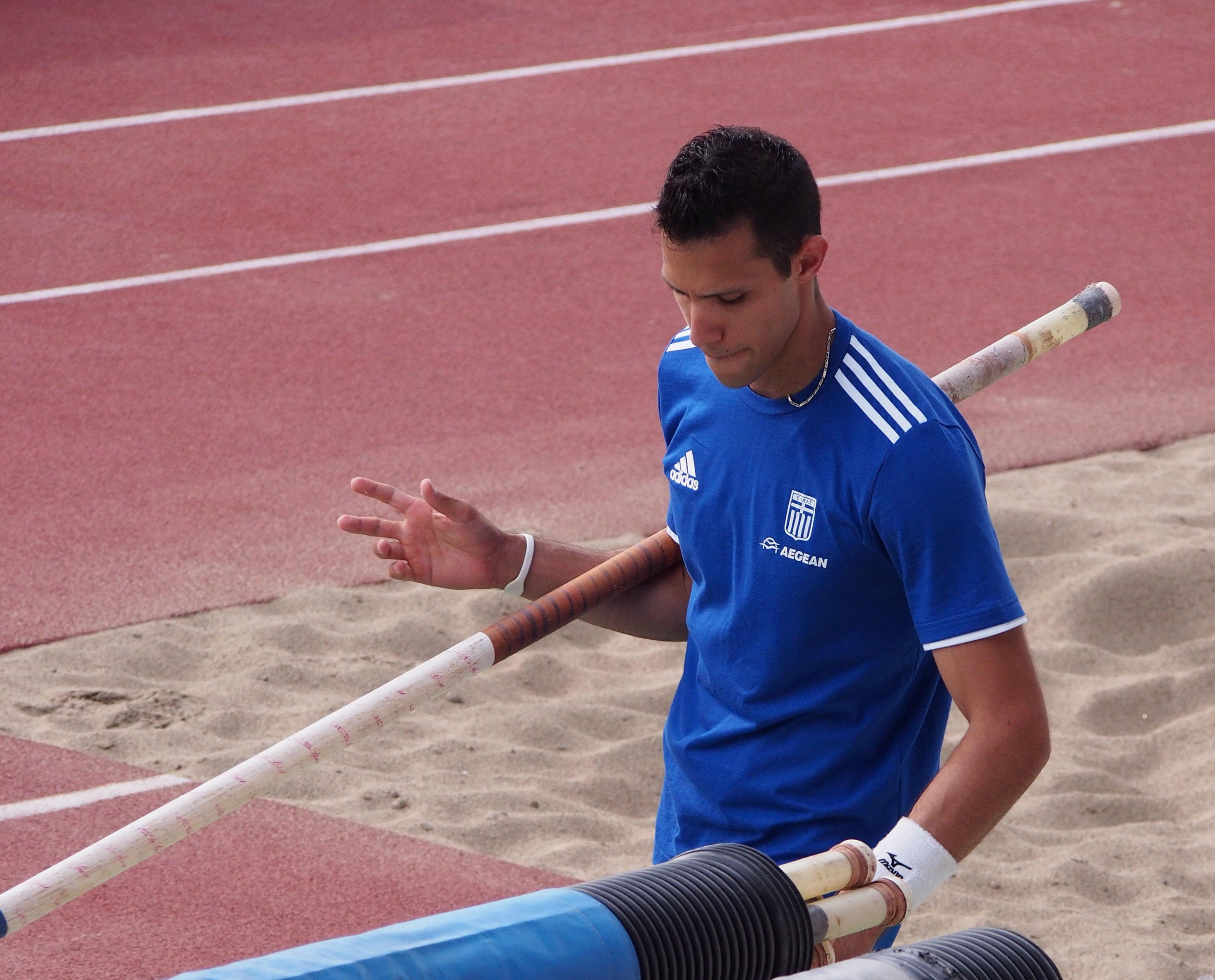 Kostas Philippidis representing the greek team at 2015 European Team Championships First League.